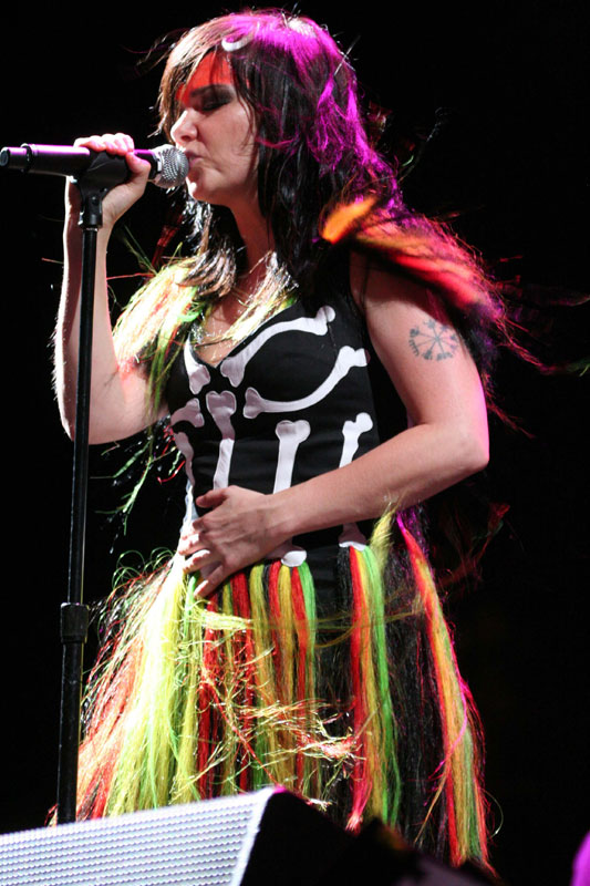 Björk, Coachella Day 1, Photo by Paul Familetti